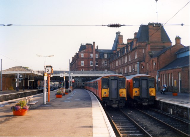 Ayr station Electrification has arrived. Two electric units await departure to Glasgow.